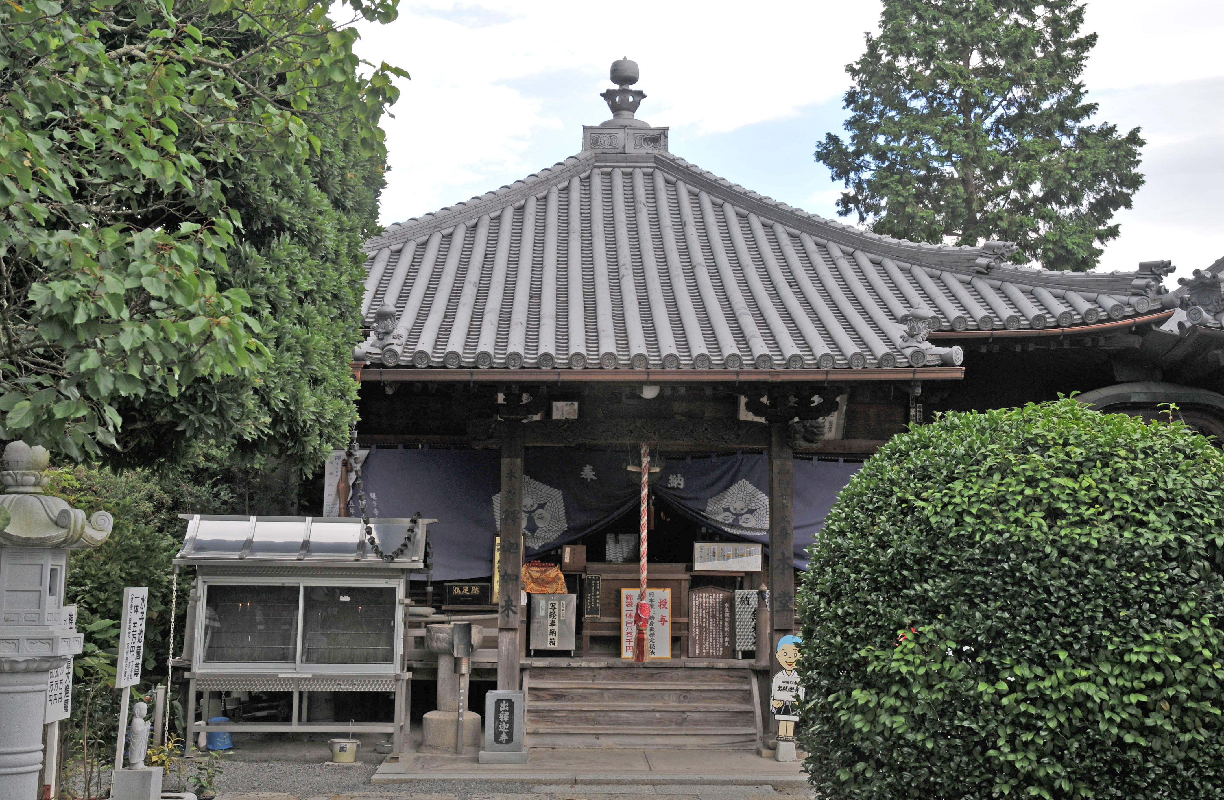 Main temple, Shusshaka-ji